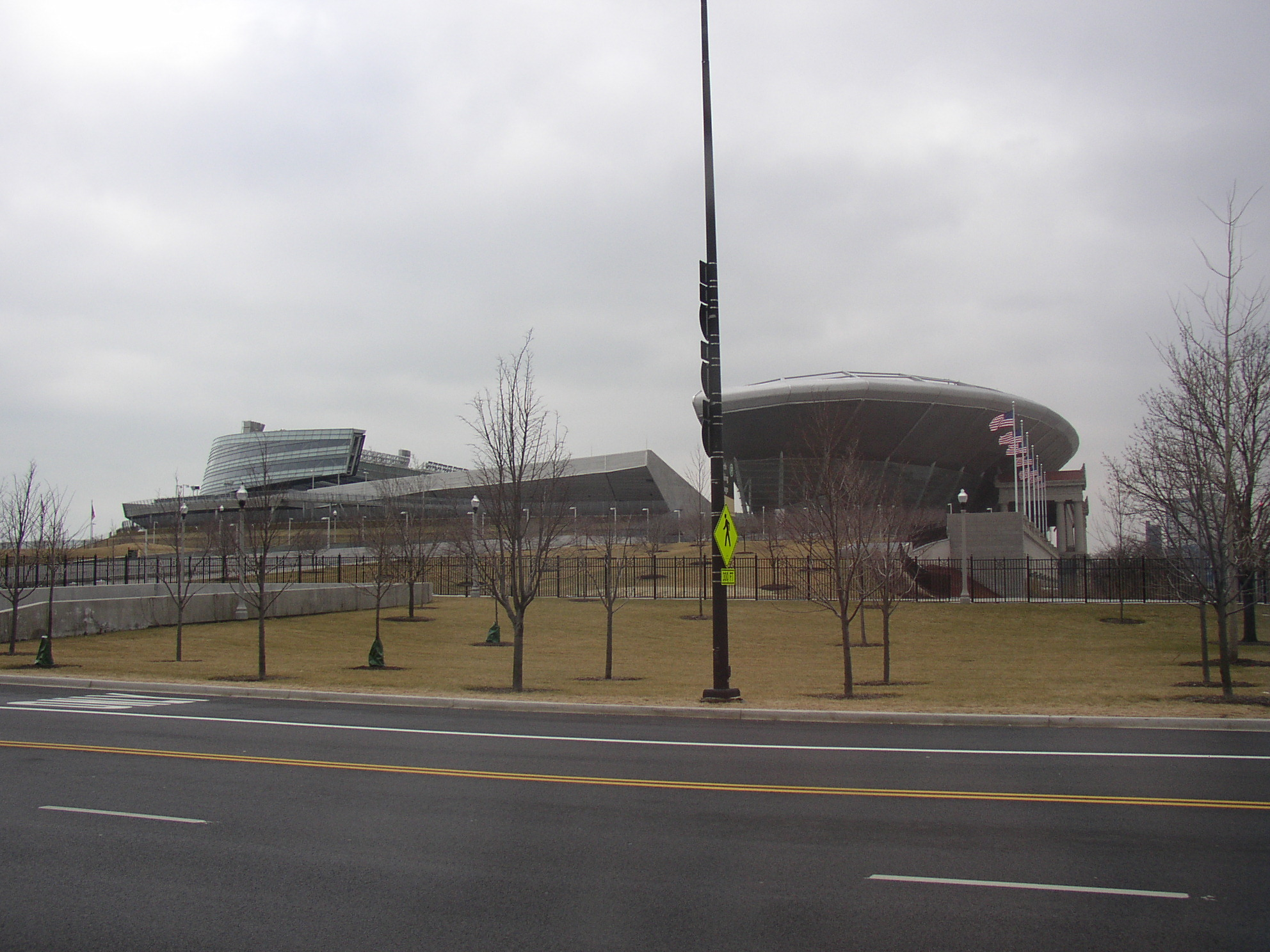 Football Stadium in Chicago